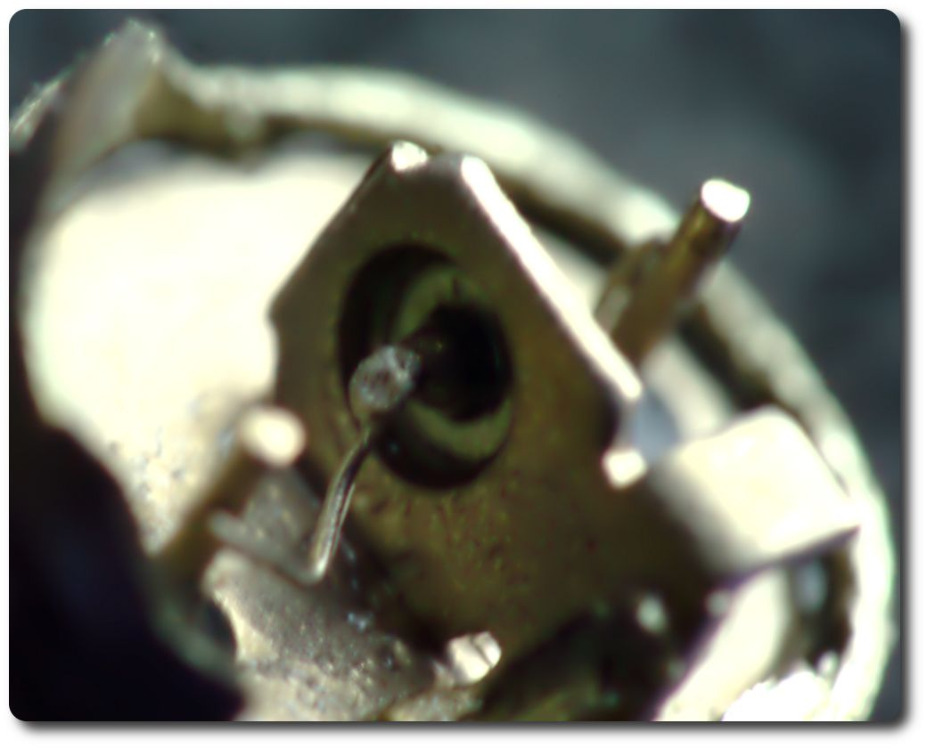 Inside Polish germanium transistor TG50